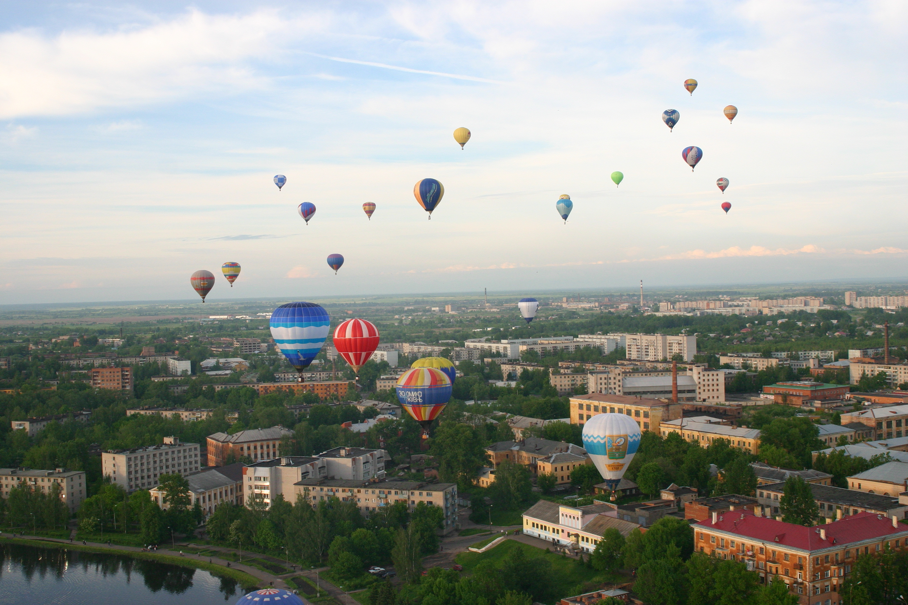 Hot air balloon festival in Velikiye Luki, Pskov Region